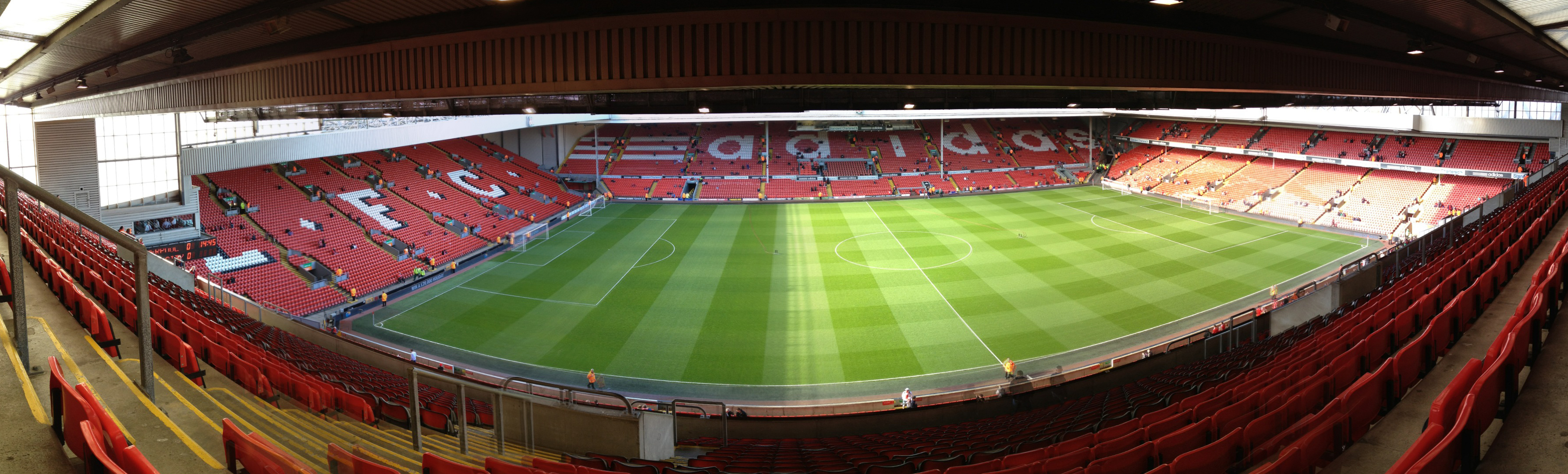 Taken before the FA cup quarter final Liverpool vs Stoke 18/03/2012. The match finished 2-1 with Liverpool going into the Semi-Final at Wembley against Everton or Sunderland, dependant on the result in that quarter final match.